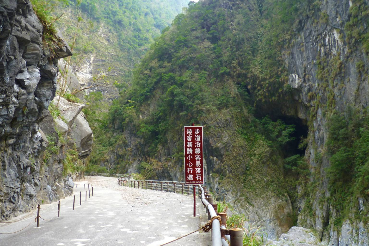 Tunnel of Nine Turns trail at Taroko National Park, Taiwan closed due to rockfall.